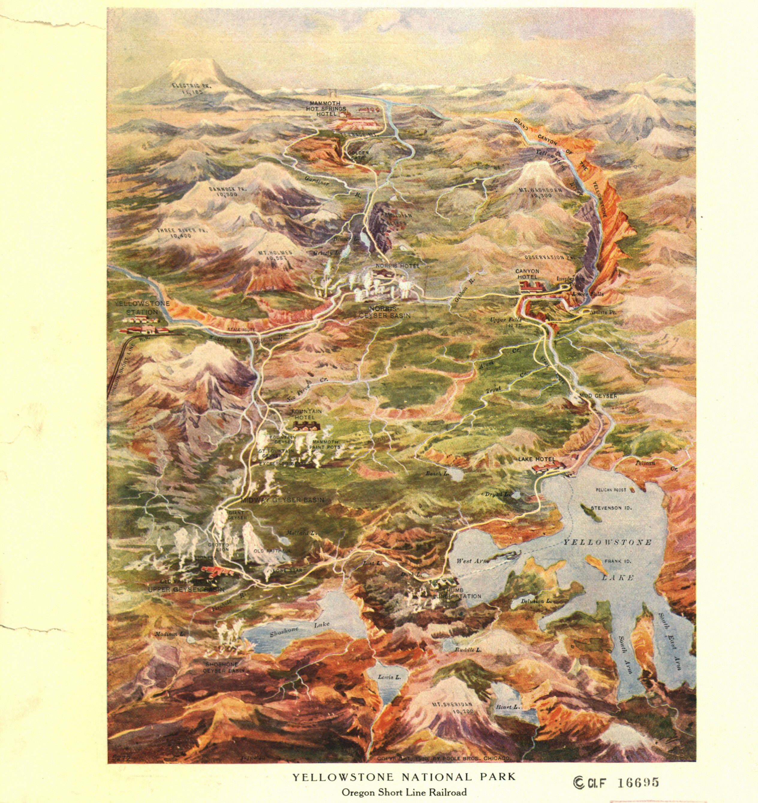 Color Panorama of Yellowstone National Park, Wyoming, 1910